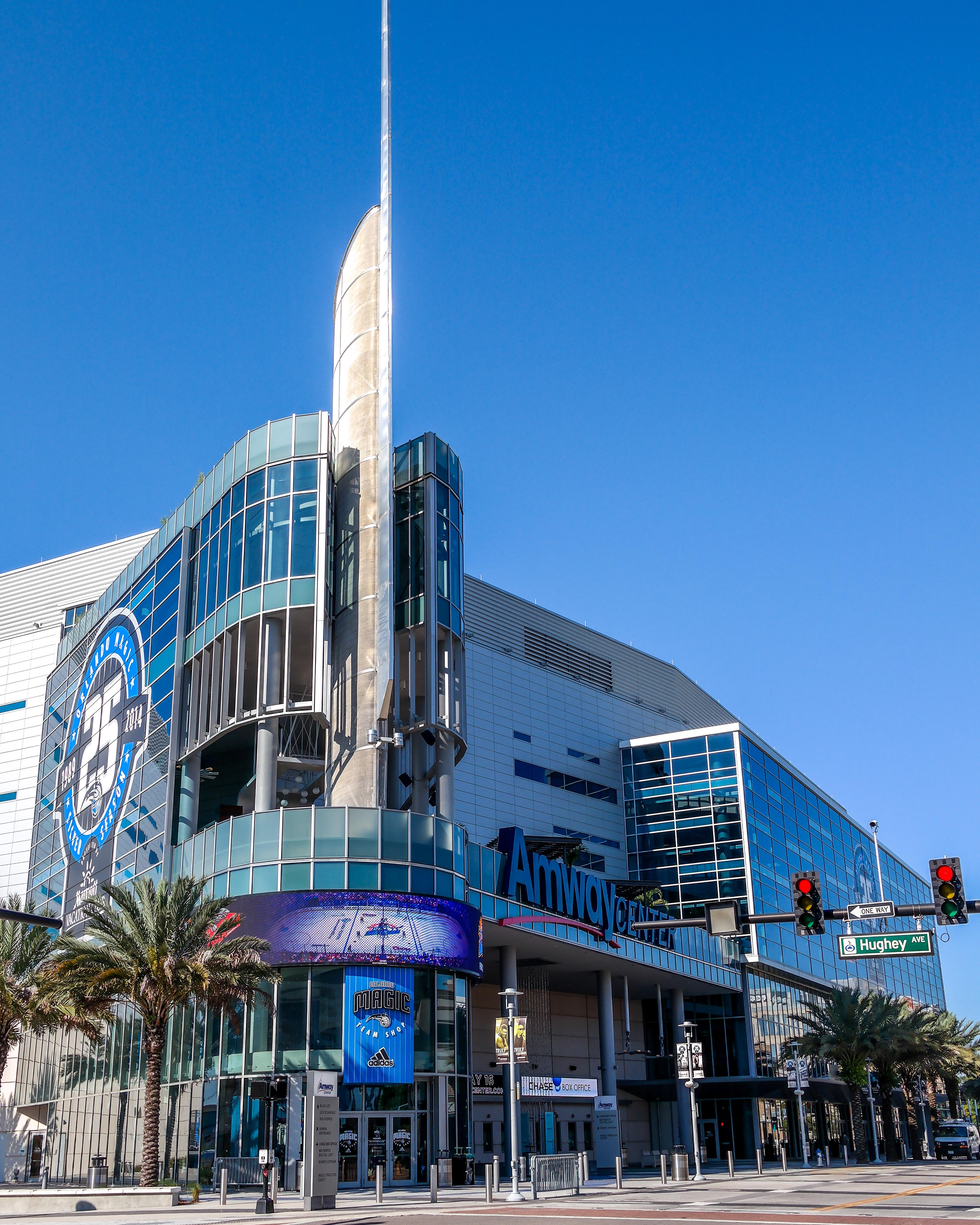 A view of Amway Center in Orlando, Florida